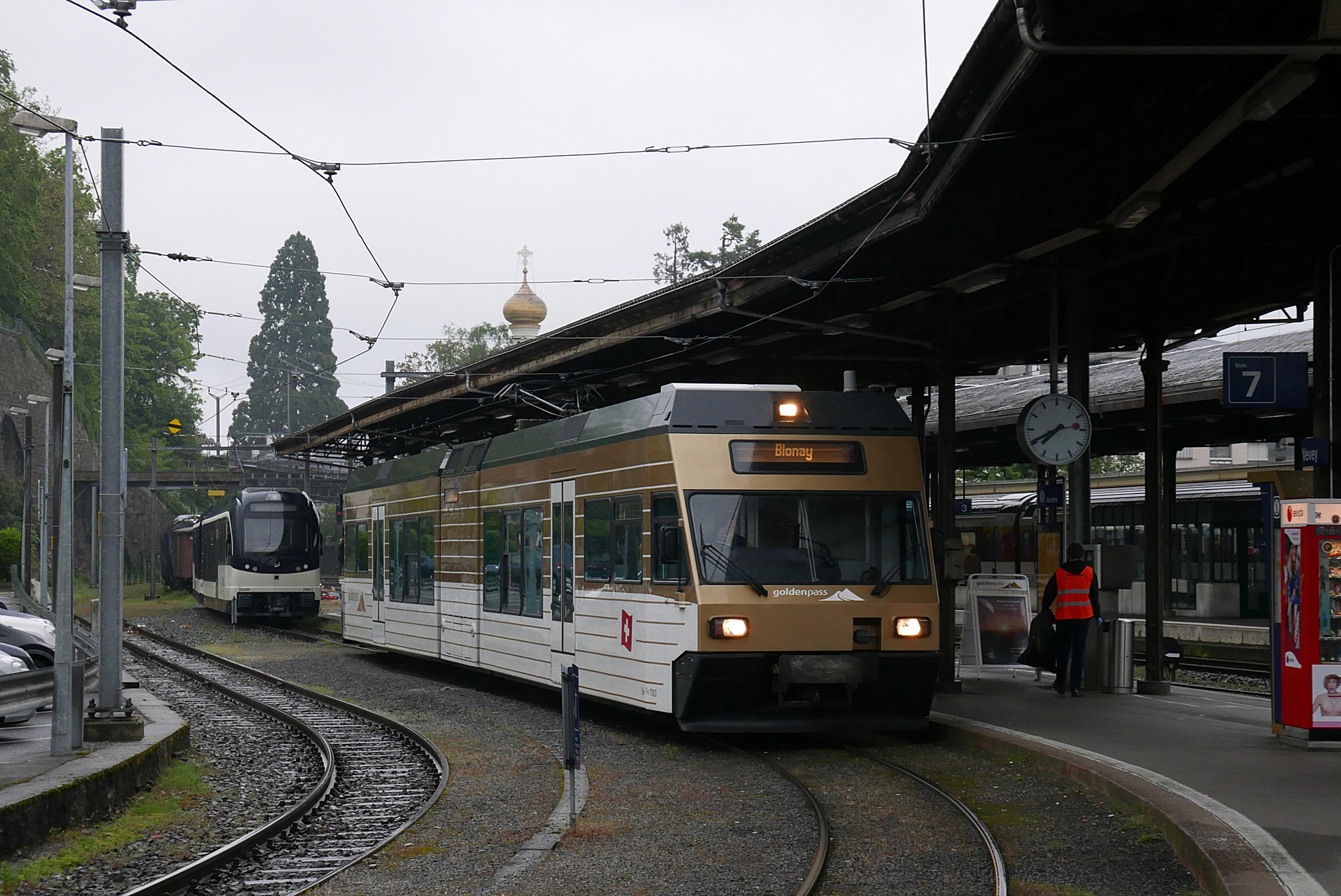 MVR Be 2/6 7003 at Vevey train station.